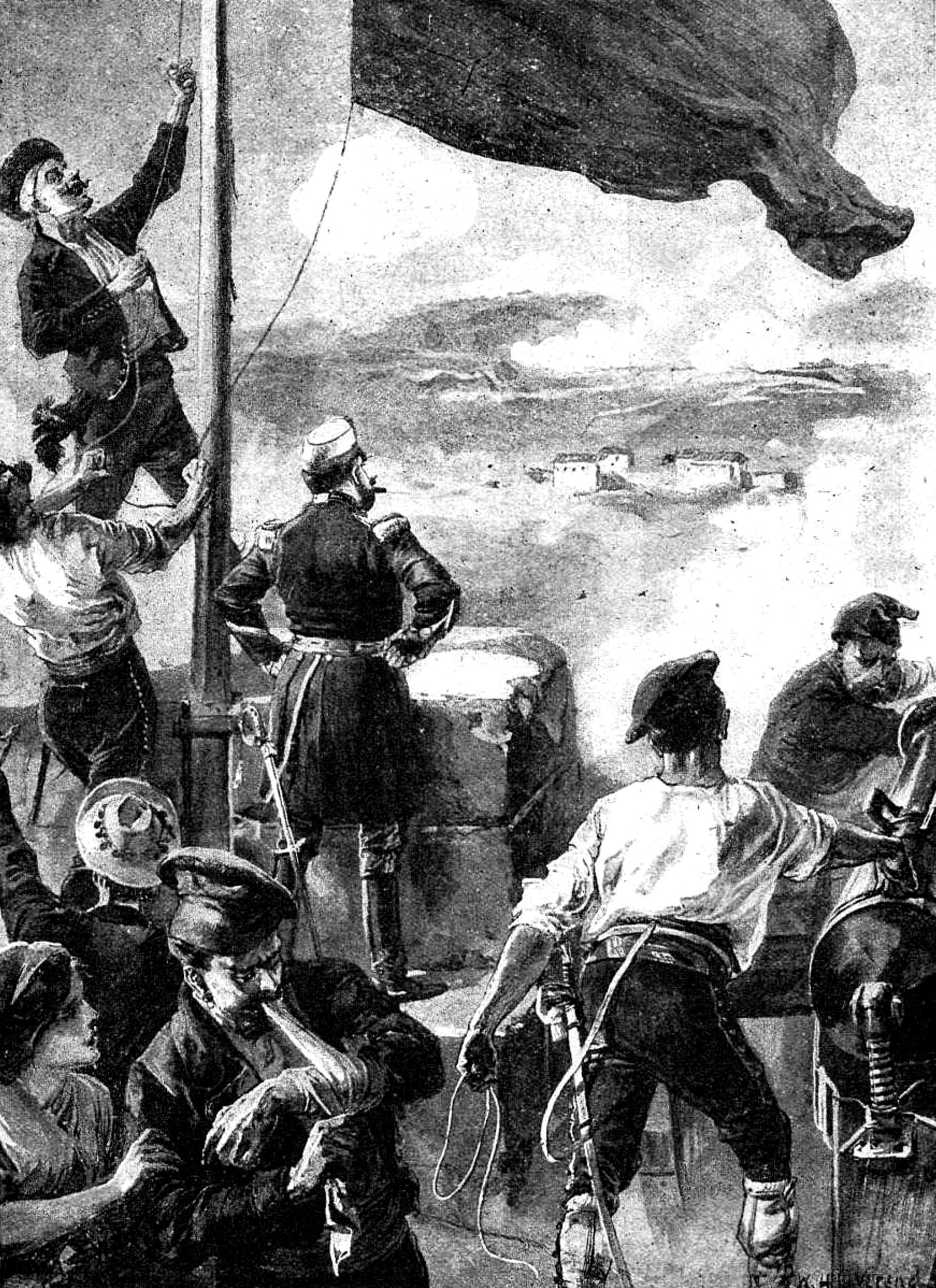 Engraving of the magazine La Ilustración Ibérica, titled "To paint like to love: Presumed aspect of the walls of Cartagena when the city capitulated in 1874", but that unmistakably shows in fact the hoisting of the red flag of the Canton in the castle of Galeras on July 12, 1873, day that the insurrection in Cartagena broke out.